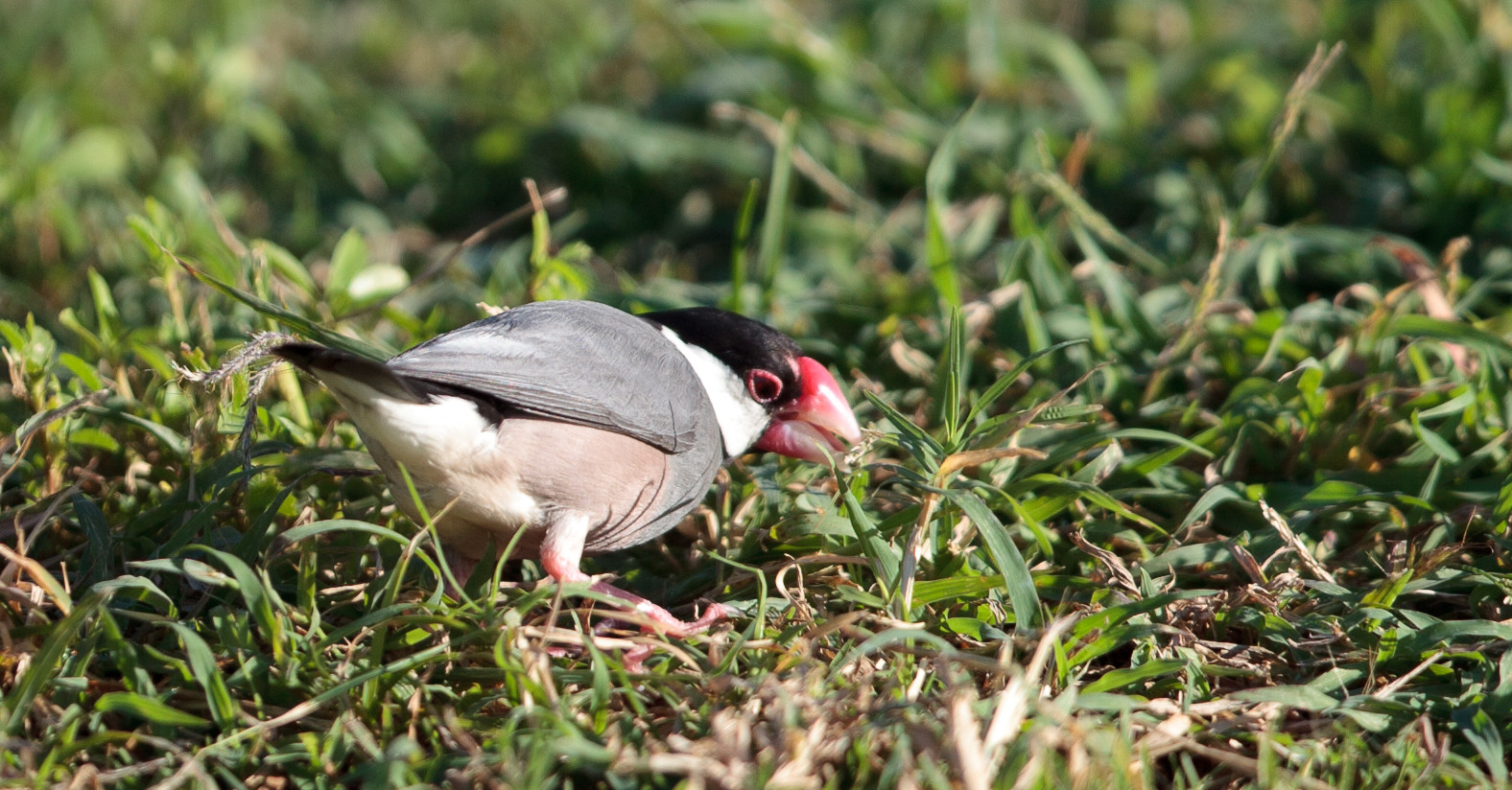 An adult Java Sparrow (also known as Java Finch and Java Rice Bird) in Honolulu, Hawaii, USA.